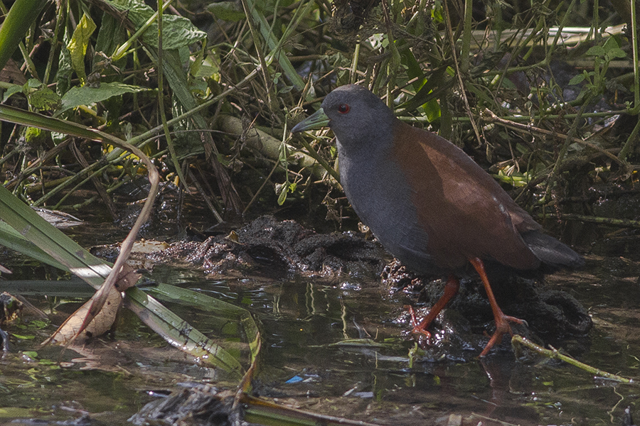 The species Black-tailed Crake had been photographed during the birding trip of GoingWild in Khangchendzonga Biosphere Reserve in West Sikkim, India on 15.02.2016.